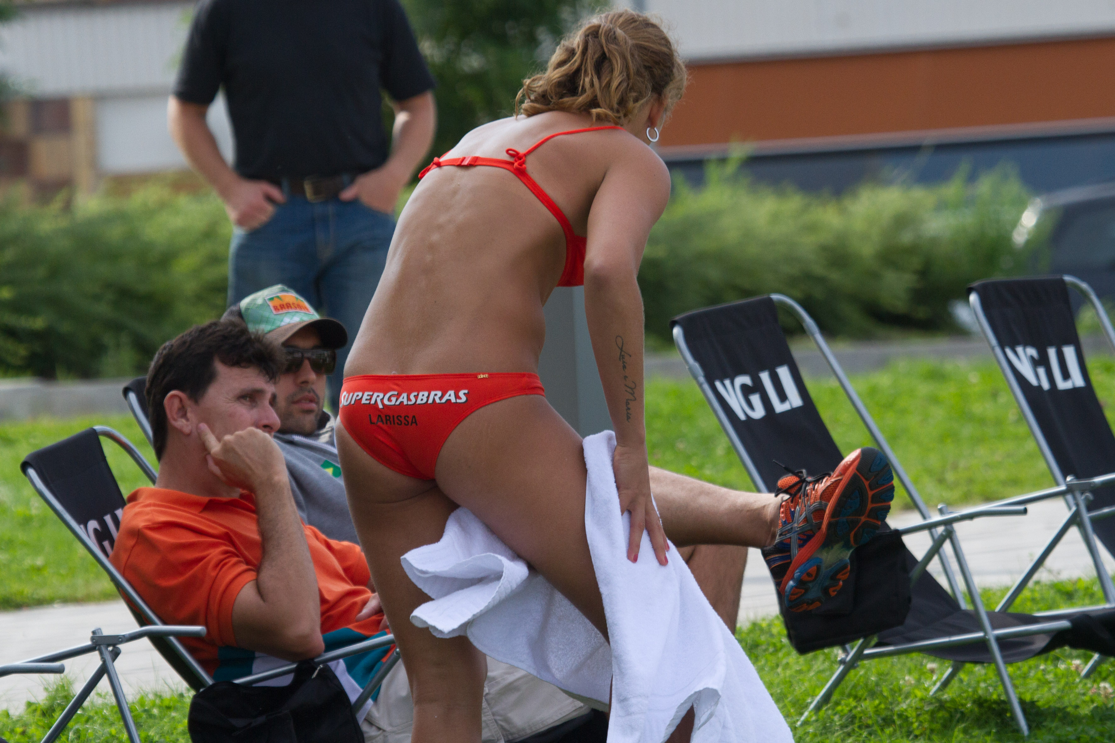 Beach Volleyball legend Larissa of Brazil post-match on August 30 2012 at the Paf Open in Mariehamn, Åland, Finland. Photograph: Rob Watkins/ This picture is free to use as long as it it credited: Rob Watkins/